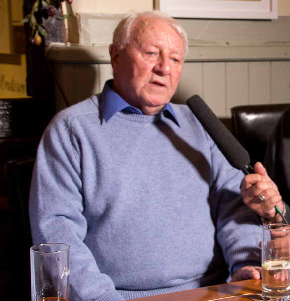 Tommy Docherty at the Duke of Edinburgh 8 October 2017